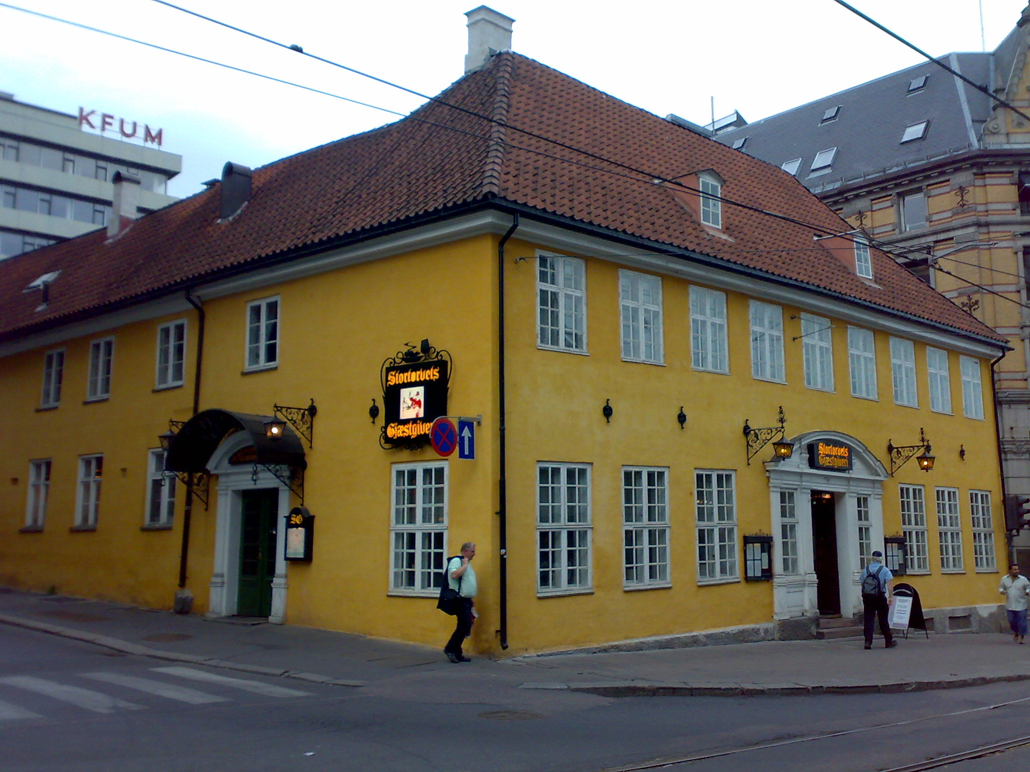 Stortorvets Gjaestgiveri